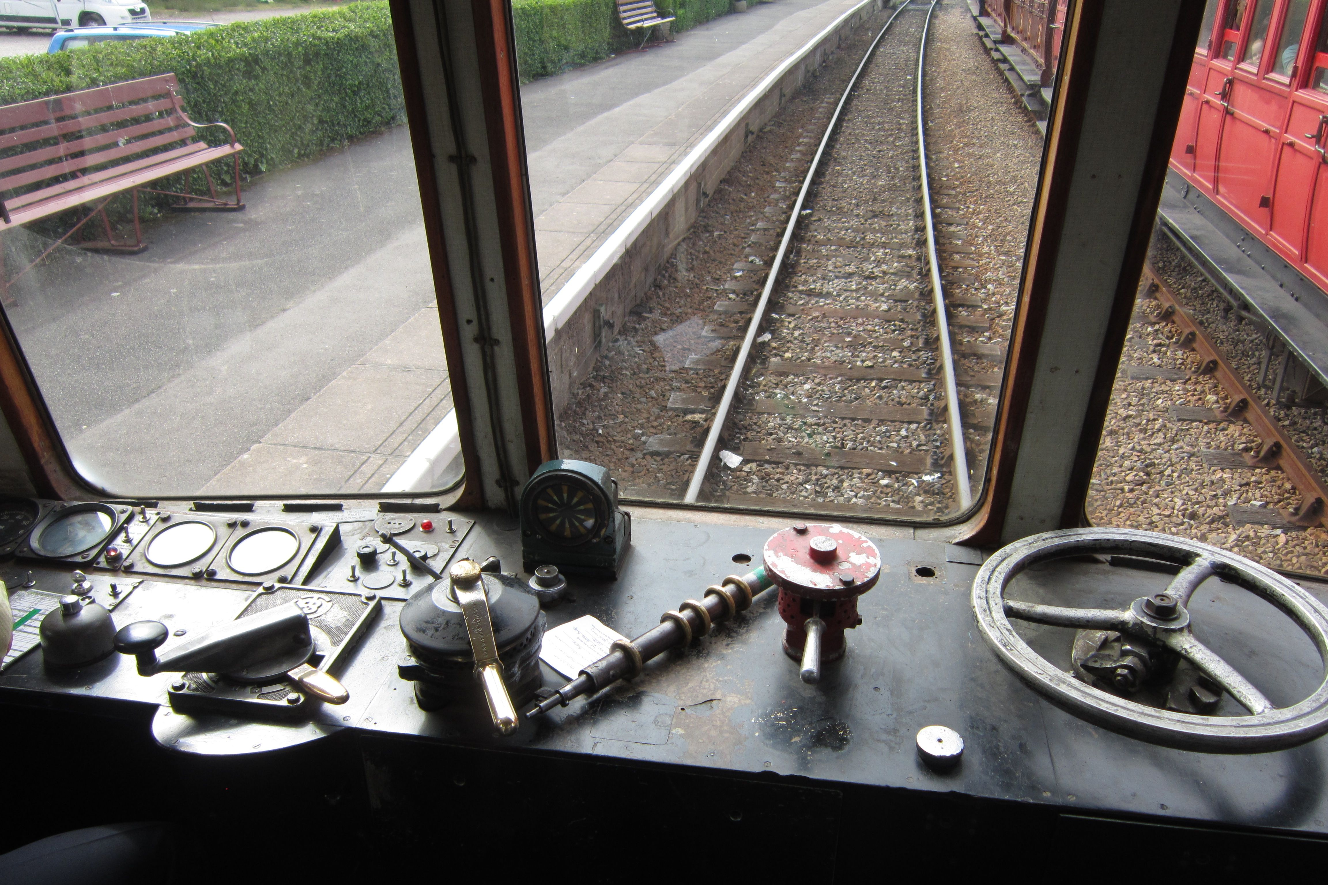 British Rail Class 108 driver's cab (photo taken at Northiam railway station)